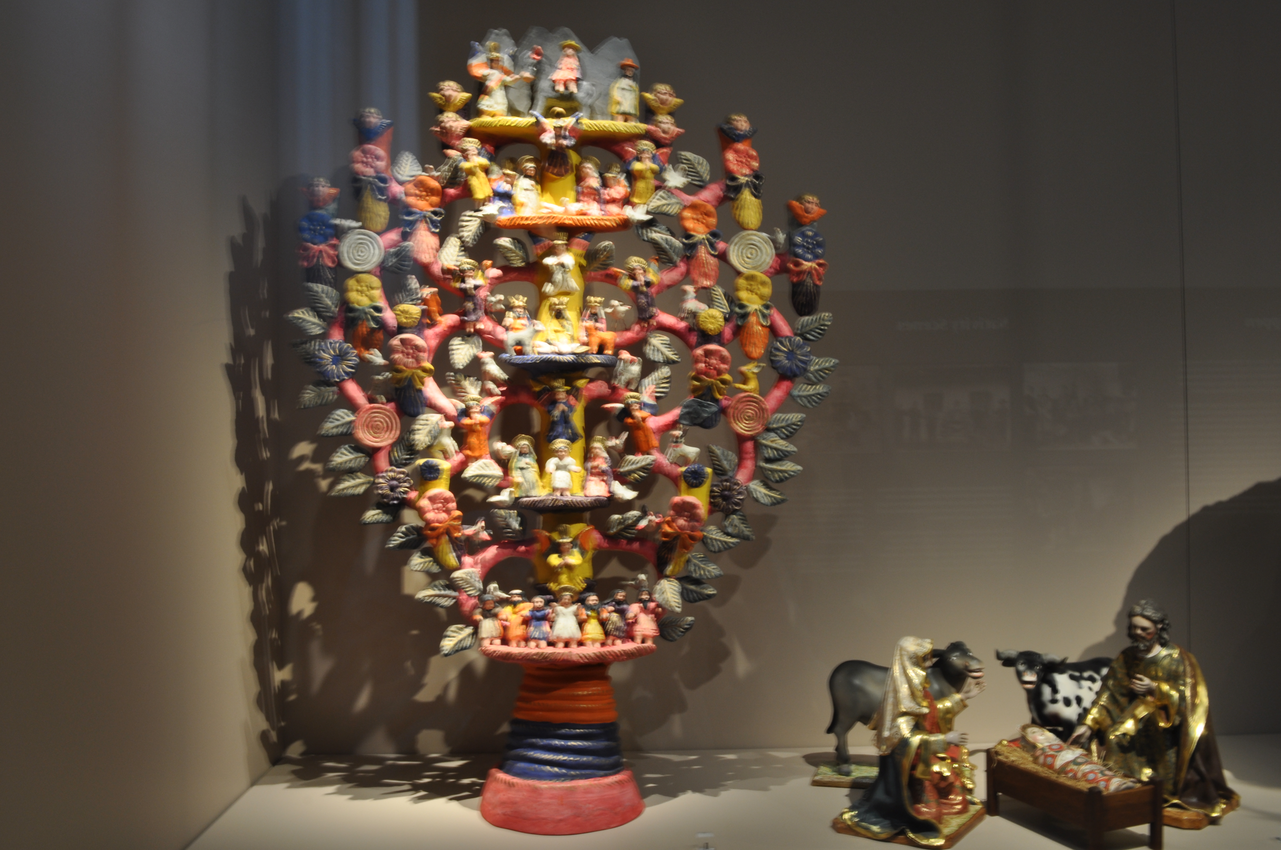 GLAM-Event at MEK (Museum Europäischer Kulturen, 2017)